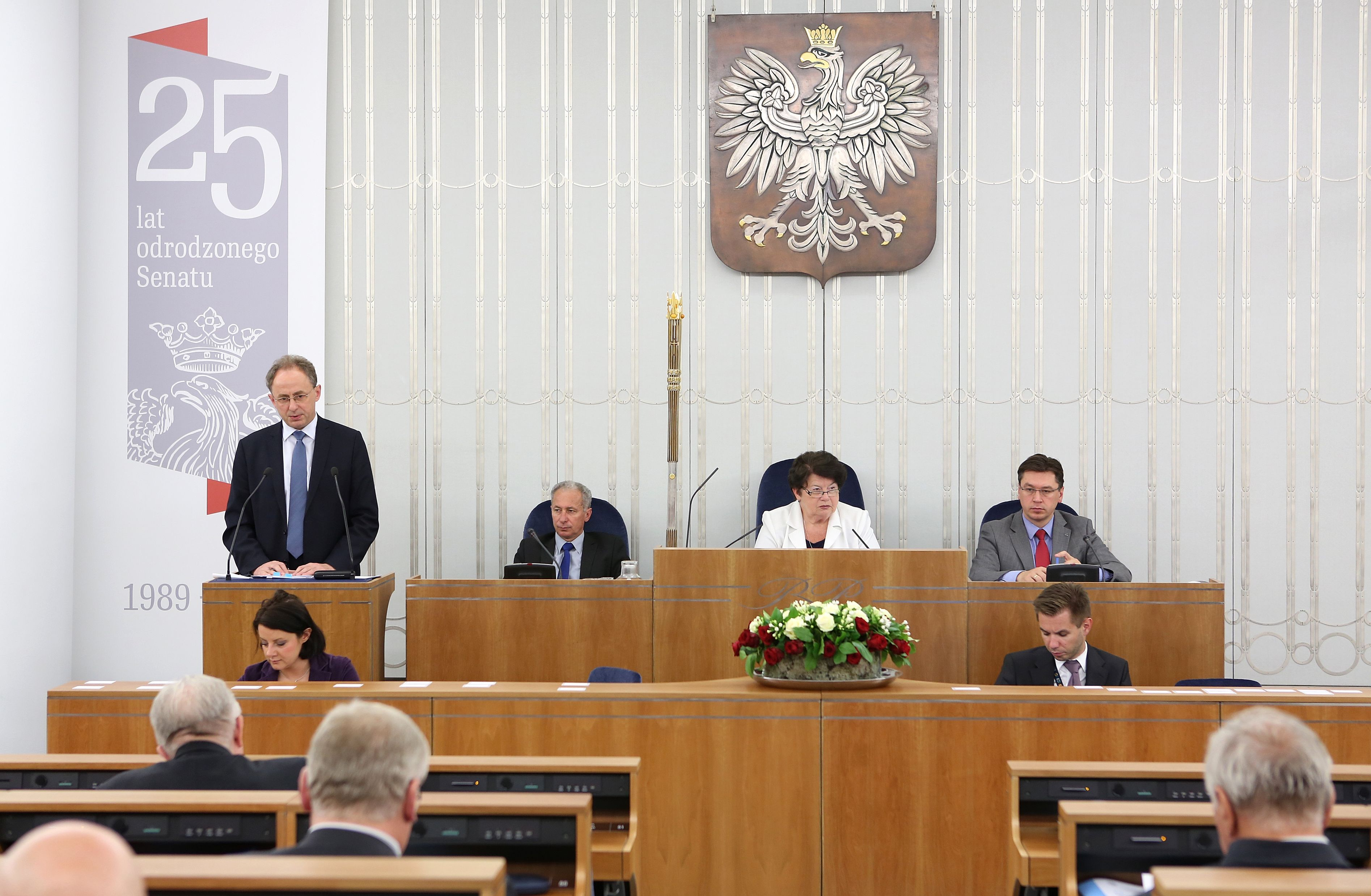 Undesecretary of state in the Ministry of Economy Jerzy Pietrewicz. 57th sitting of the Polish Senate